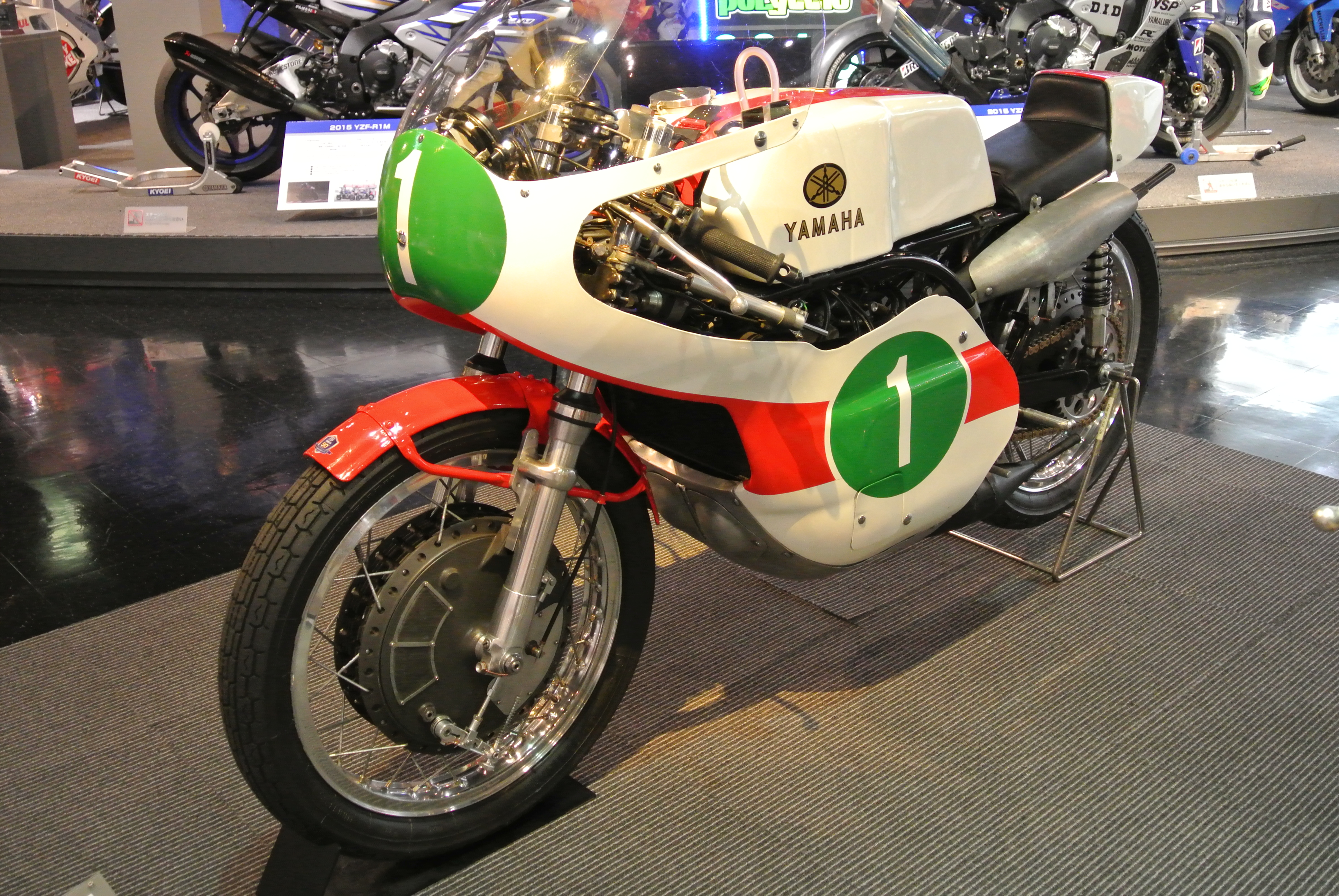 1968 Yamaha World GP Bike RD05A in the Yamaha Communication Plaza.